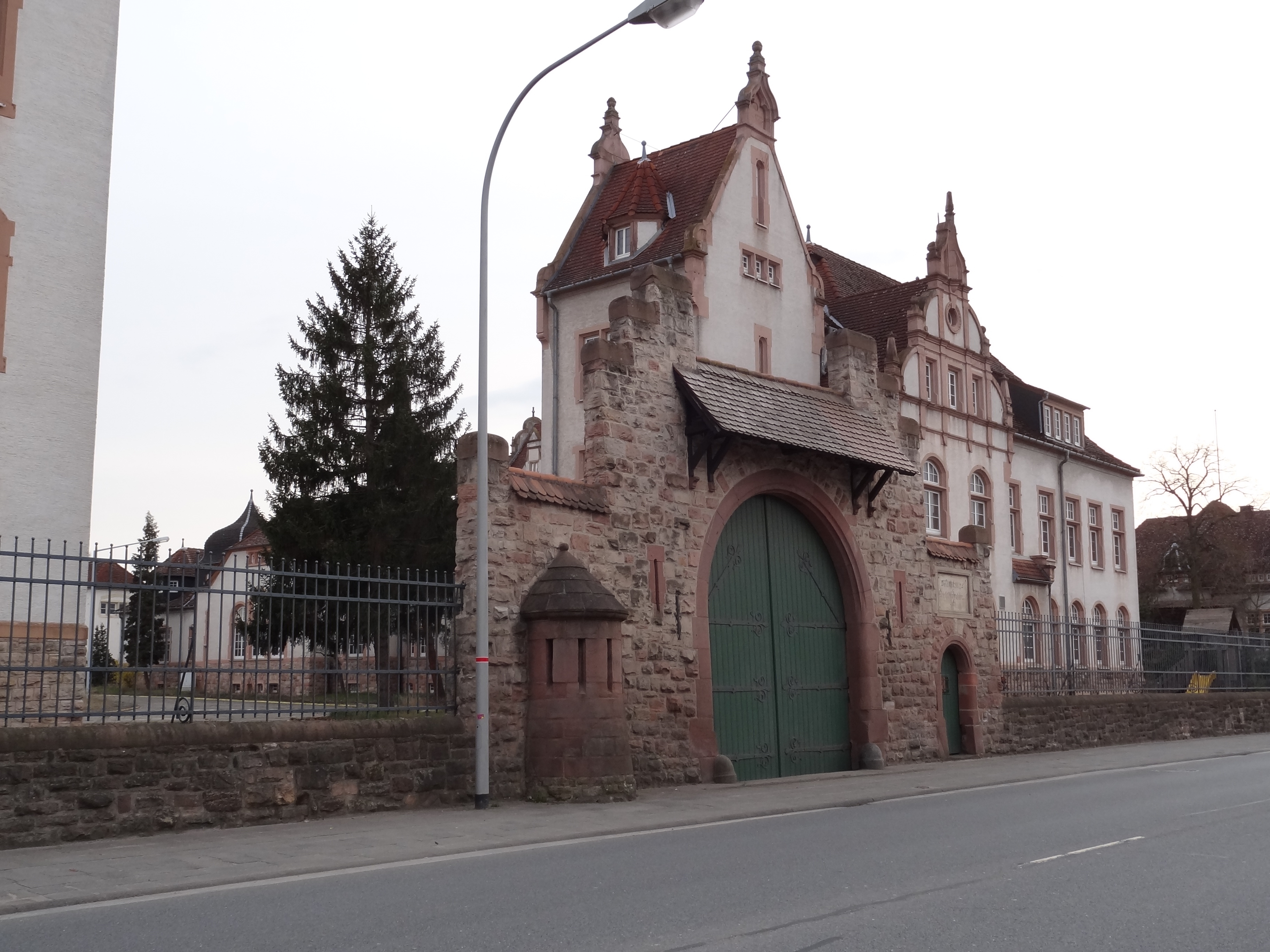 Main Gate- US Army Babenhausen Kaserne. This photo was taken in 2013.